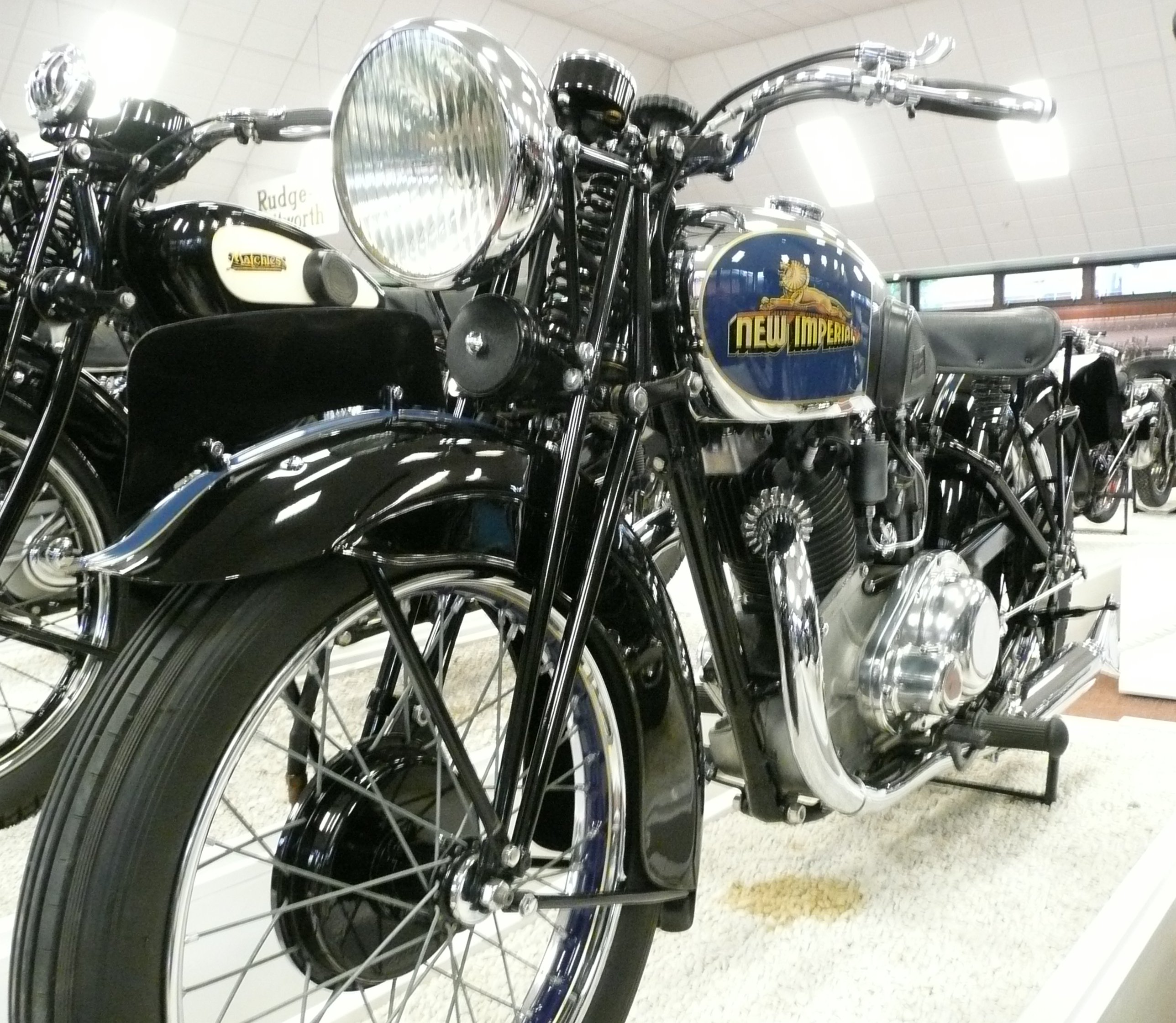 1937 New Imperial 500cc (at the National Motorcycle Museum)